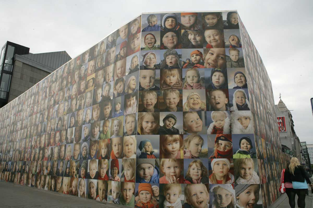 "Dialog" project by Anna Leoniak and Fiann Paul. The installation of the photographs of the Icelandic children from the rural areas of Iceland, decorated the corner of Austurstraeti and Laekjargata in the heart of the capital city of Iceland from May to December 2008. Copyrights released for Wikipedia under creative common license, uploaded by author from